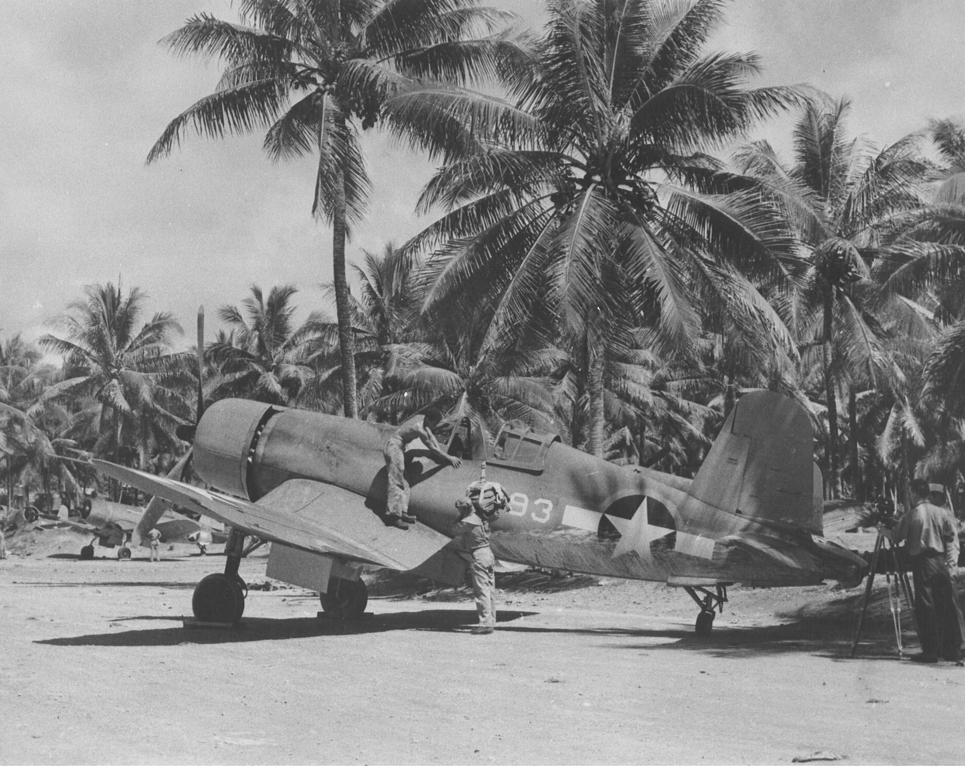 F4U-1 of VMF-214 is on the ground at Turtle Bay fighter strip on Espiritu Santo island in the 1940s, in colonial New Hebrides (present day Vanuatu) during WWII.